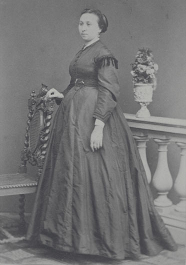 Description: Auguste Pinkus (1838–1919) nee Fraenkel. The Pinkus family were textile manufacturers. The factory in Neustadt, Upper Silesia (now Prudnik, Poland), was one of the largest producers of fine linens in the world. Joseph Pinkus became a partner in the firm S. Fraenkel when he married Auguste Fraenkel, the daughter of the owner. Creator/Photographer: Unknown Object Origin: Unknown Medium: Black and white photographic print Date: undated Repository:Leo Baeck Institute Parent Collection: Pinkus Family Collection Call Number: AR 7030 Rights Information: No known copyright restrictions; may be subject to third party rights. For more copyright information, click here. Find more information about this image and others at CJH Archives and Library Catalog.